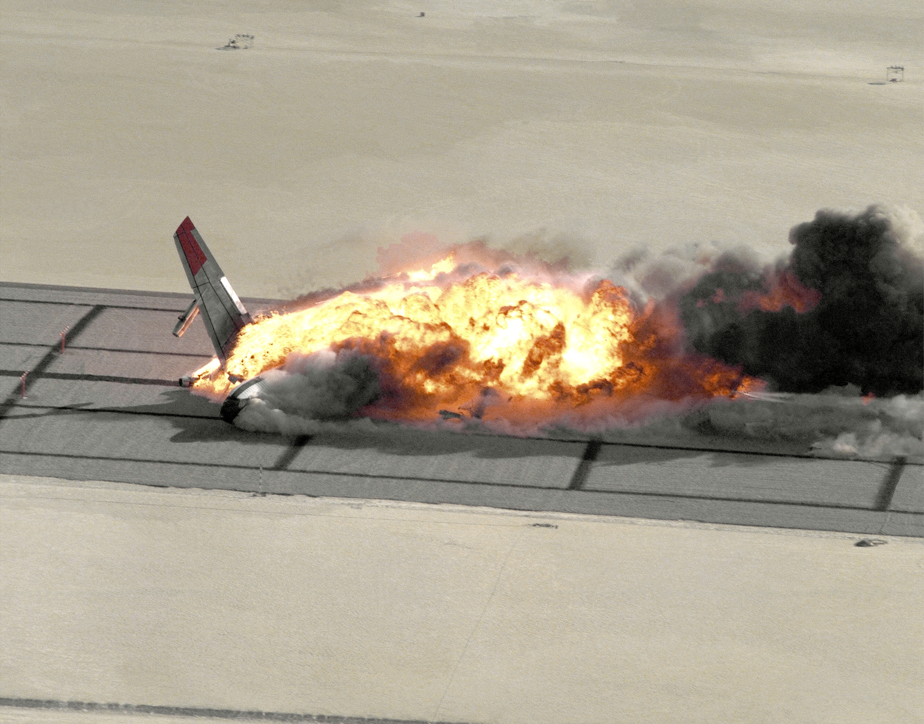 CID Post-impact fireball